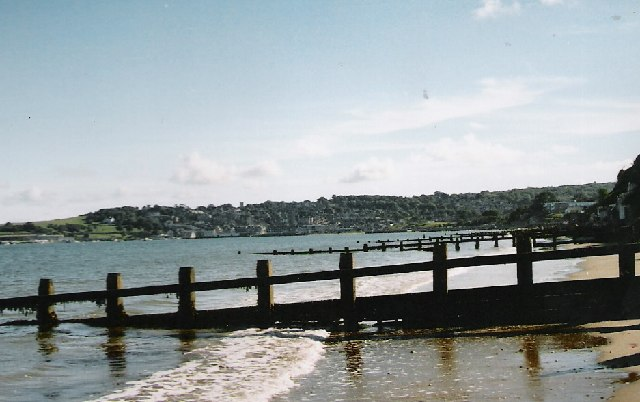 Groynes, Swanage Bay. Looking towards the town from underneath The Pines Hotel